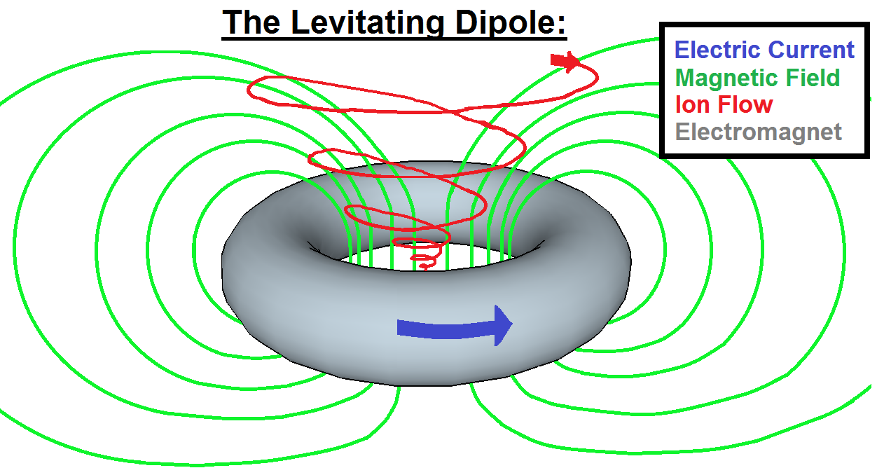 This figure shows single ion motion inside the LDX Other information Single Ion motion inside the LDX.